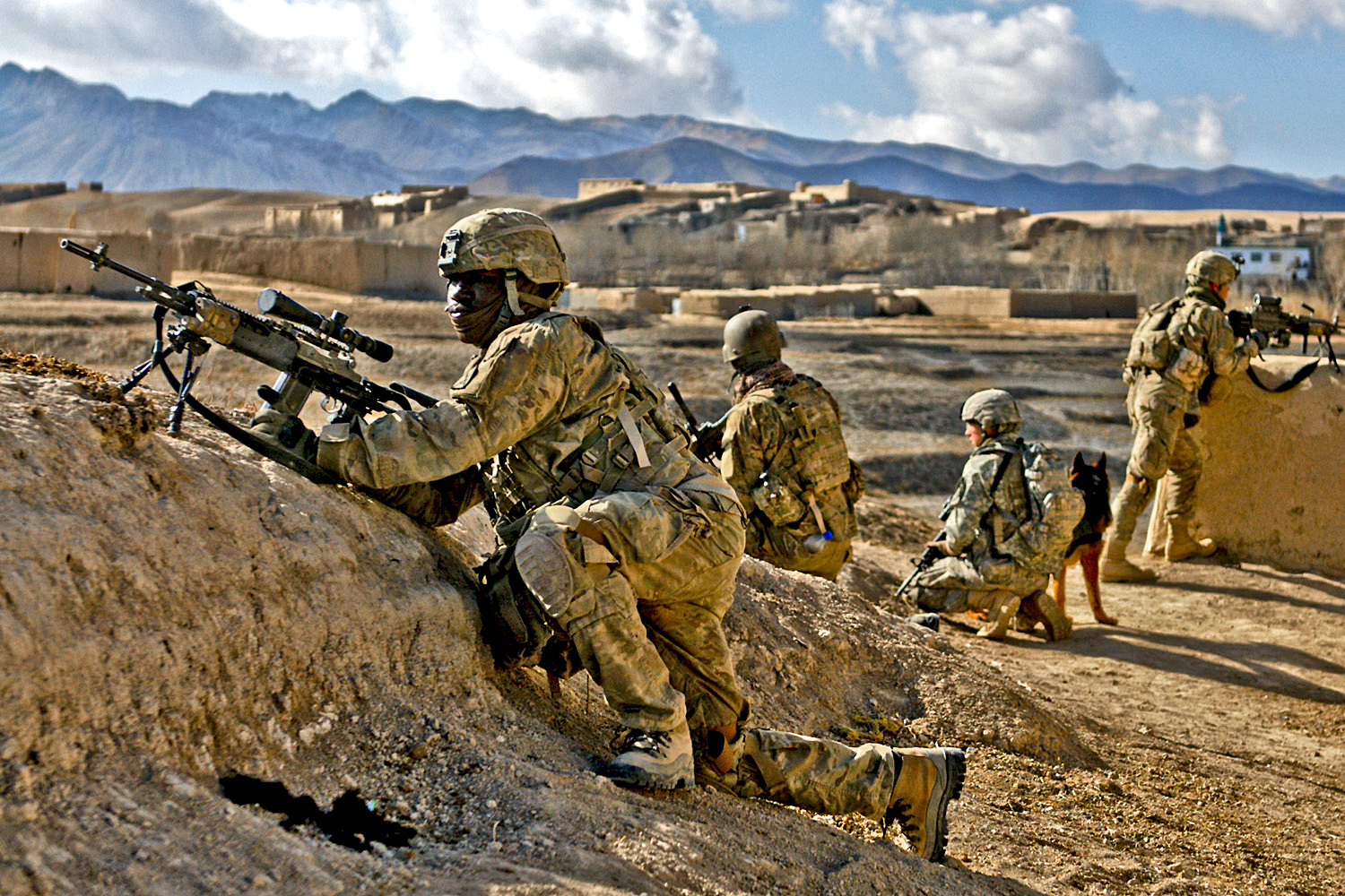 U.S. Army Pfc. Ryan B. Stuart provides security for Afghan forces in the Kharwar district in Afghanistan's Logar province on Jan. 11, 2011. Stuart is assigned to the 10th Mountain Division's Company D, 2nd Battalion, 30th Infantry Regiment, 4th Brigade Combat Team, Task Force. U.S. and Afghan forces recovered two weapons caches and detained four people during the two-day operation.